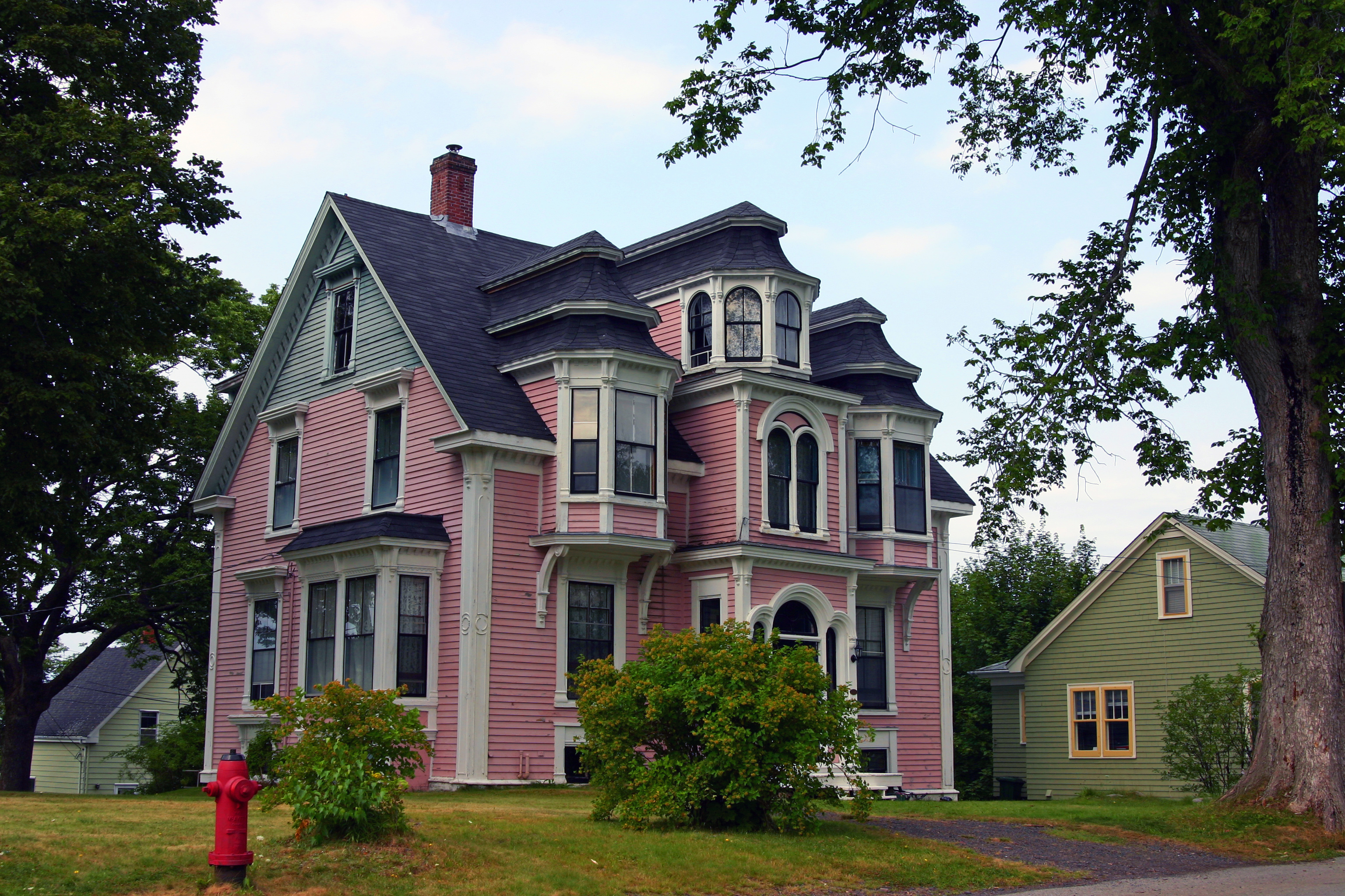 Lunenburg, one of the beautiful houses, Nova Scotia, Canada